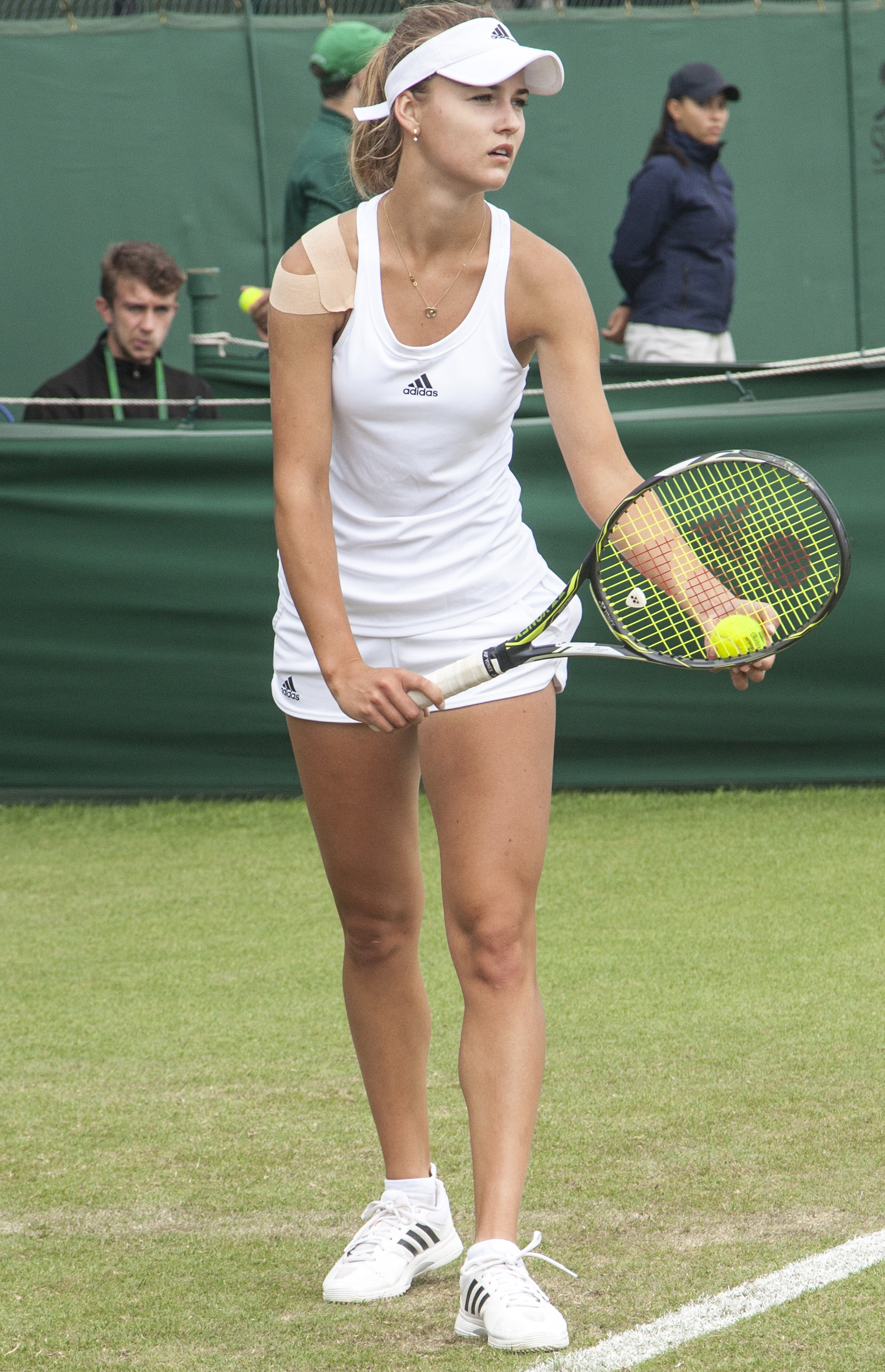 Anna Kalinskaya @Wimbledon Qualifying